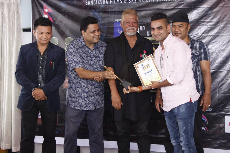 Rameshwor Karki Receiving a Nepali Music Video Awards